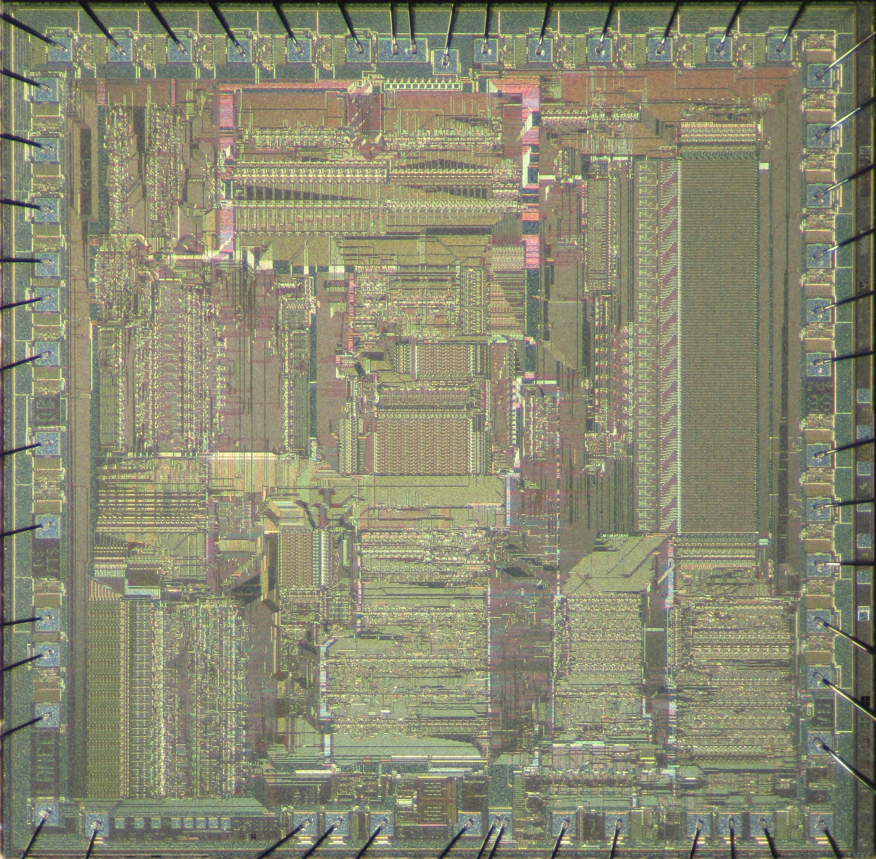 Die shot of AMD Am7990 local area network controller for Ethernet (LANCE).